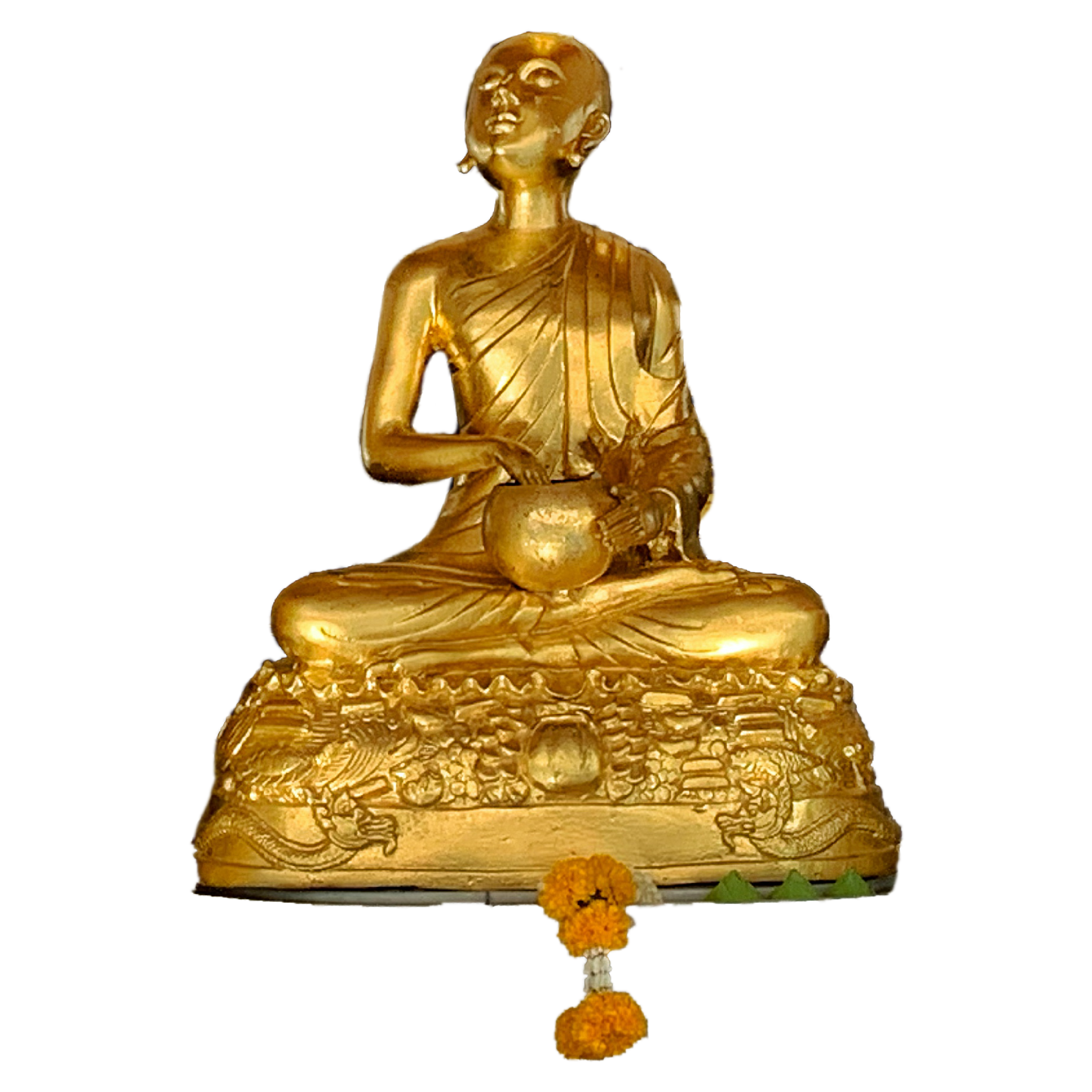 Upagutta or Upagupta or Upakhut Shrine at Wat Bowon Niwet